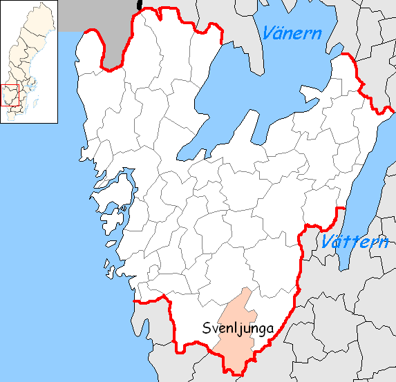 Svenljunga Municipality in Västra Götaland County Designed by me. Mere outlines are a PD source from